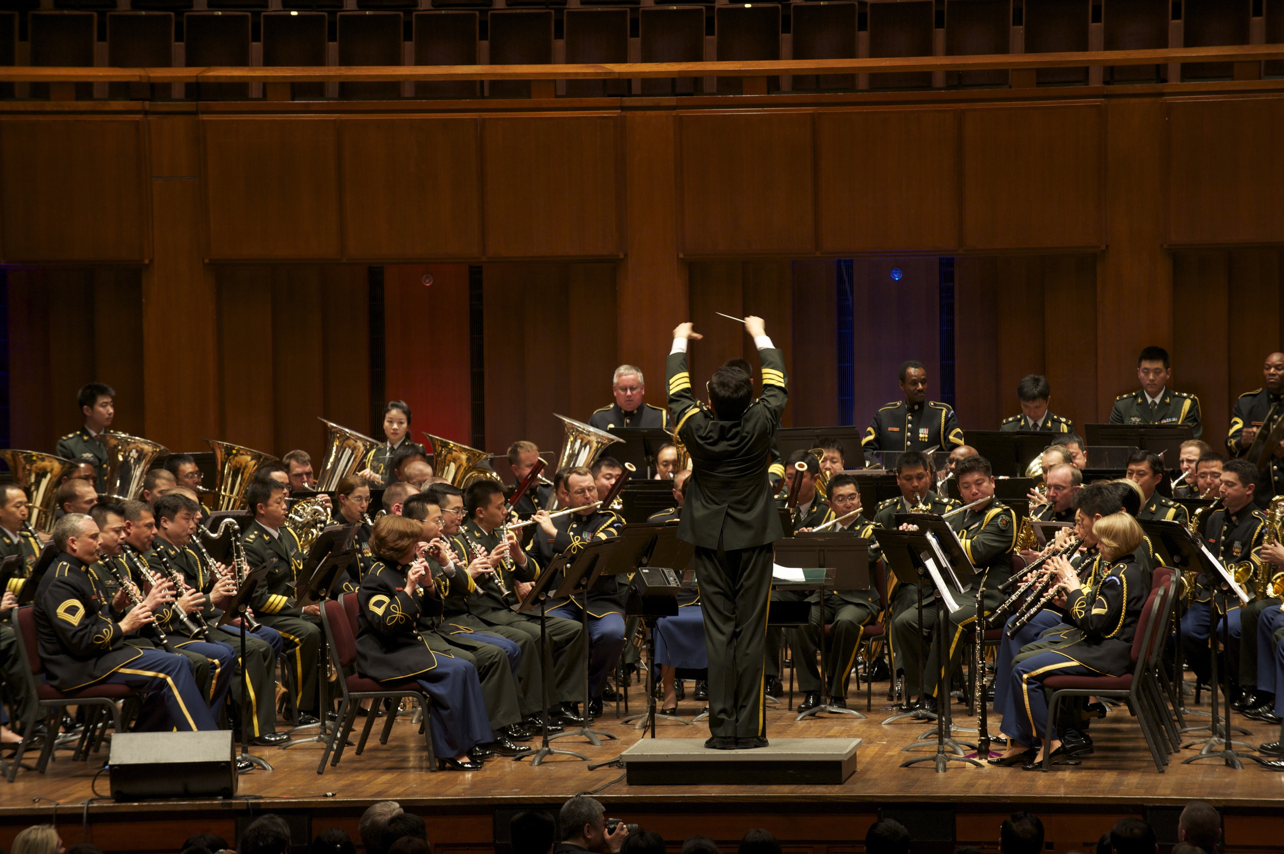 Sr. Col. Yu Hai leads the enormous combined band, which numbered over 120 musicians. Photo credit: SSG Chris Branagan, The U.S. Army Band "Pershing's Own"